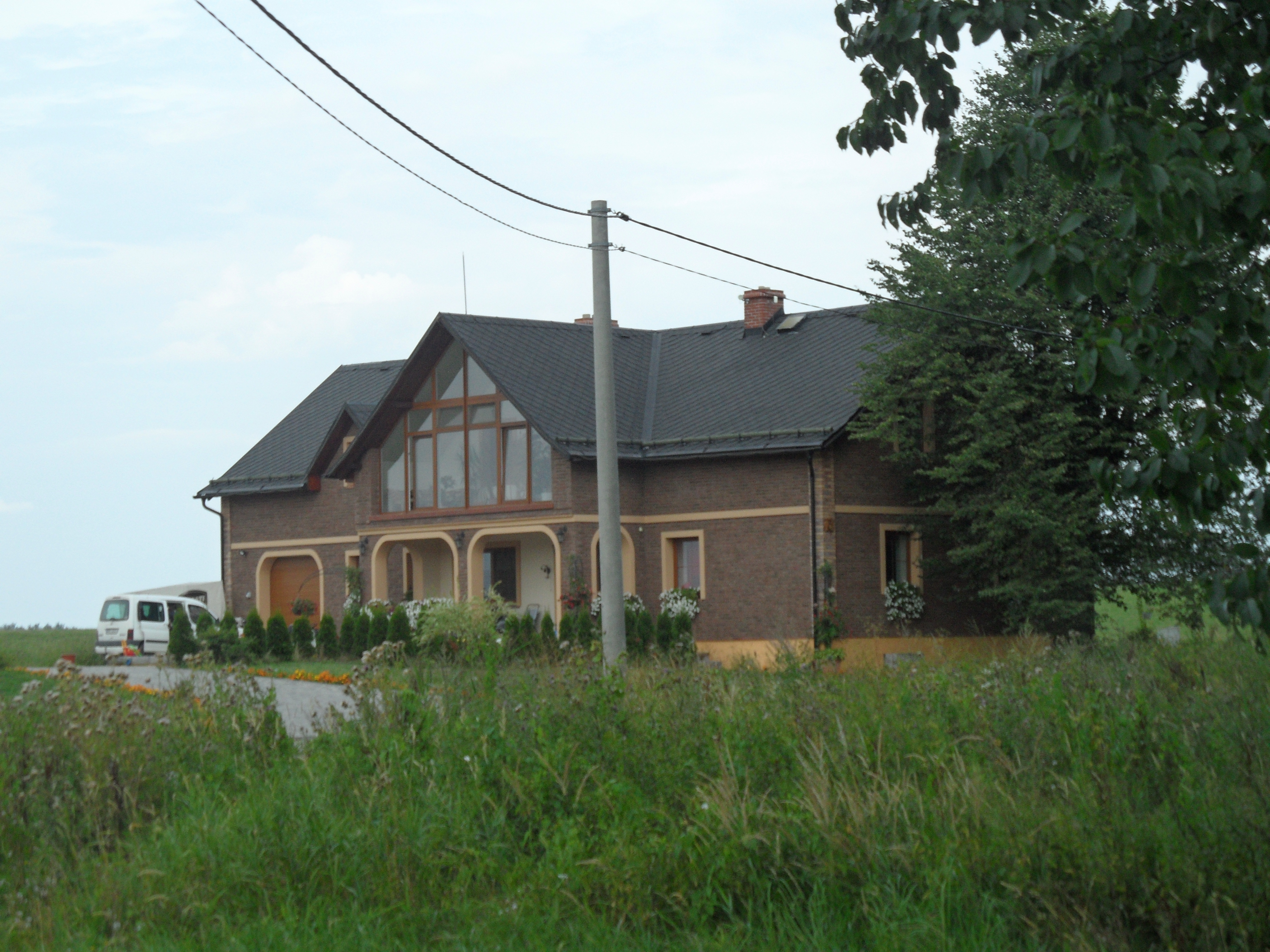 Dolni Les: Large House. Jeseník District, the Czech Republic.